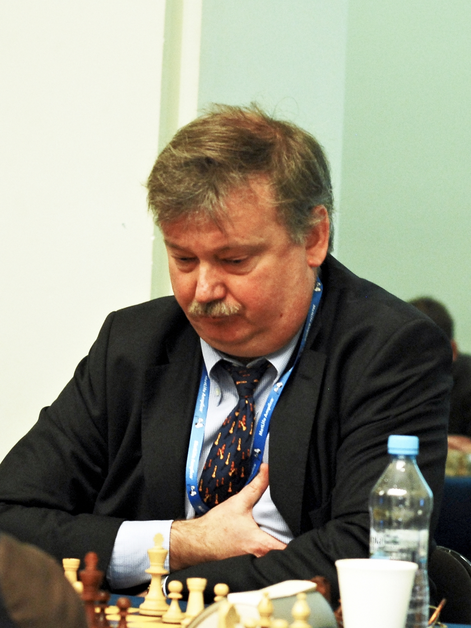 Tomasz Sielicki, European Rapid Chess Championship, Warsaw 2012.